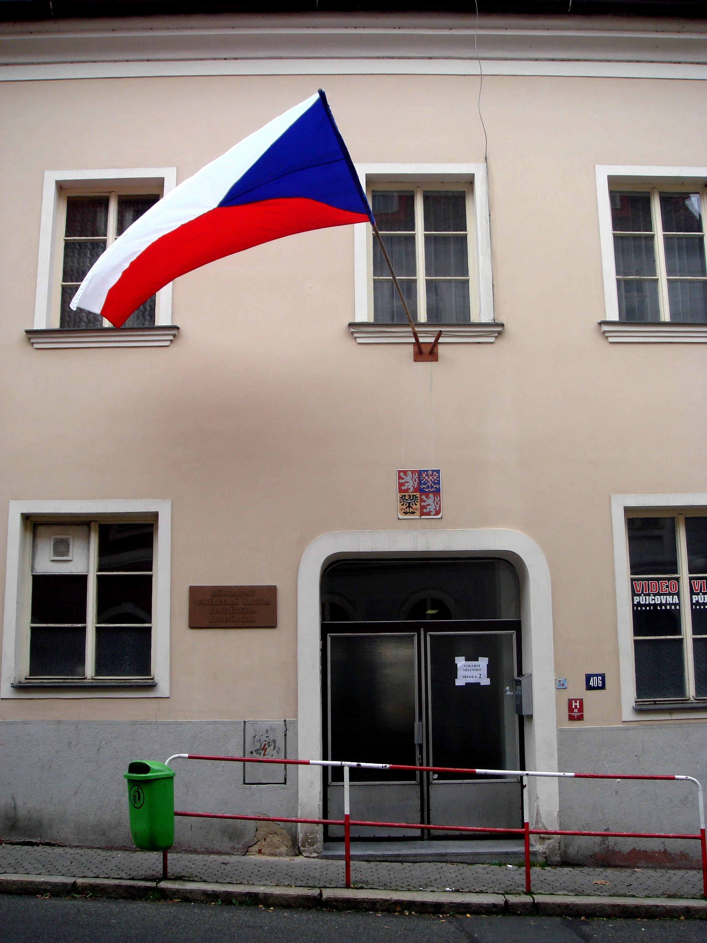 Election place for Czech Regional and Senate elections of 2008 in Cheb, placed in the Základní umělecká škola Jindřicha Jindřicha School in Židovská Street in Cheb (Karlovy Vary Region, Czechia).